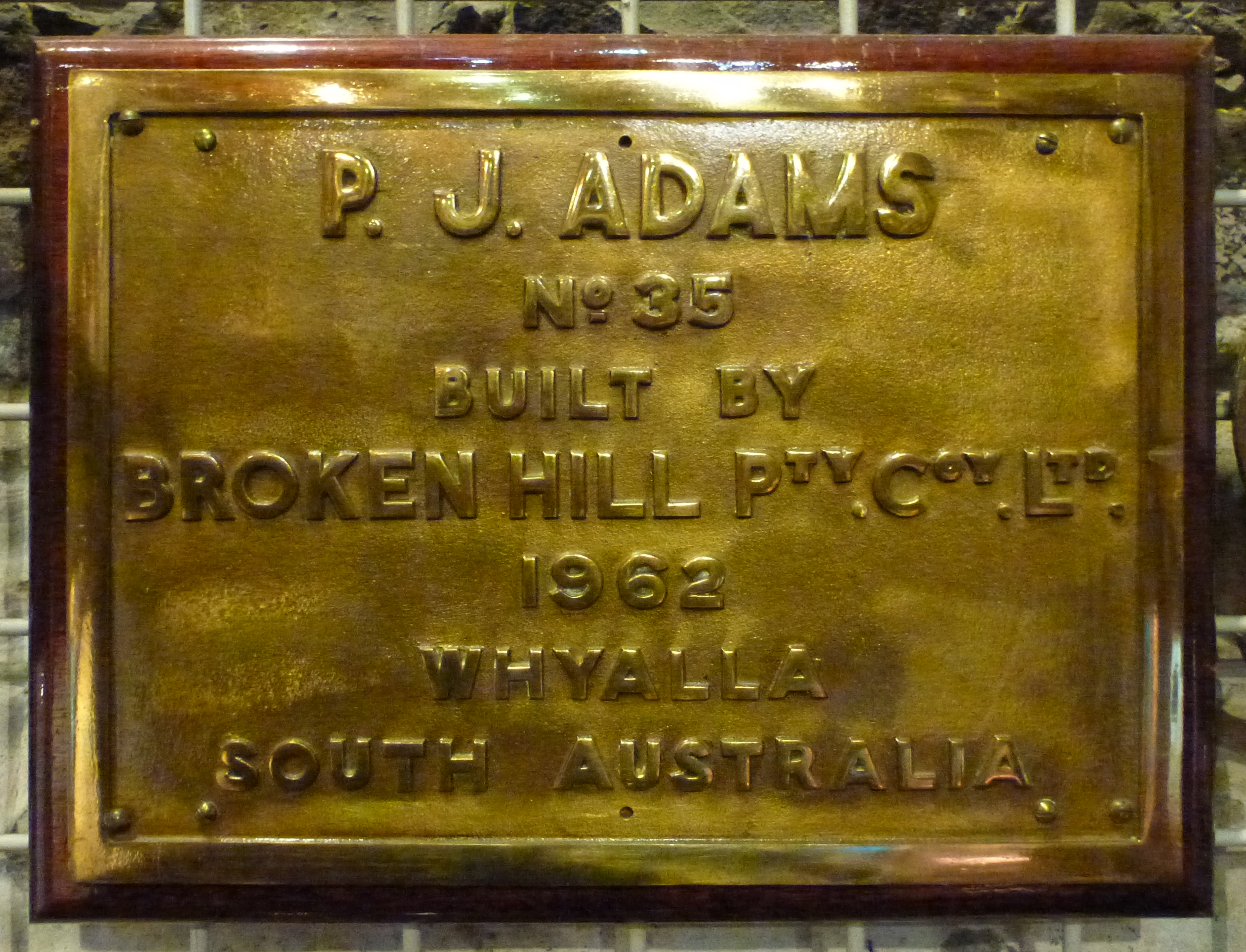 Plate from the vessel P.J.Adams, constructed by the Broken Hill Proprietary Company at the Whyalla Shipyards and launched in 1962. Plate was photographed on display at the SA Maritime Museum.